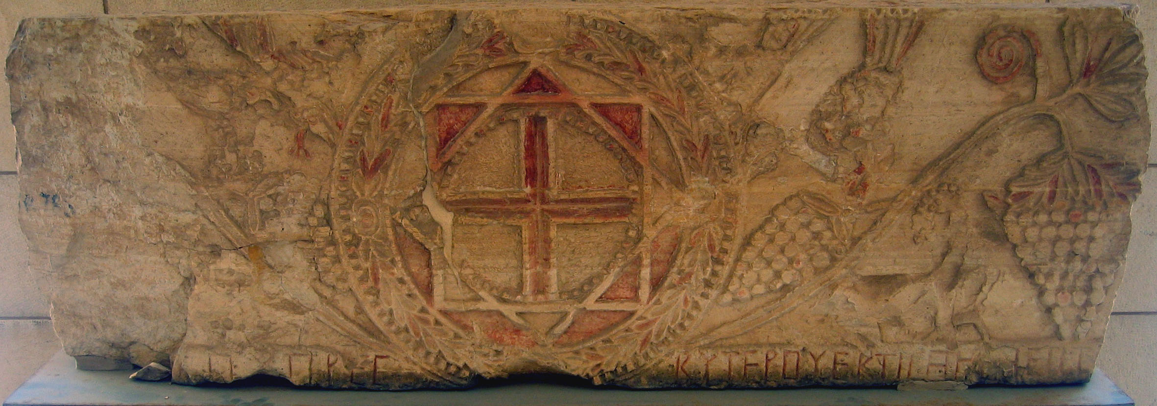 Lintel, Limestone, from Shivta, Southern Church, Byzantine period, 4th-6th century CE. The lintel bears an inscription that dates the construction of the church: "This edifice was built during the ministry of Aedon (=A'id) in the year 3..."